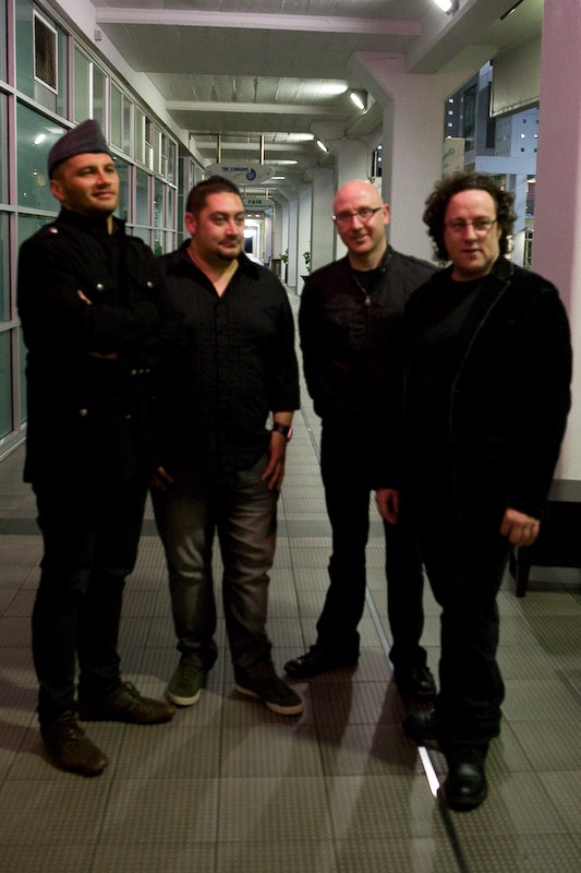 Opshop at TechFest 2008 (see link)